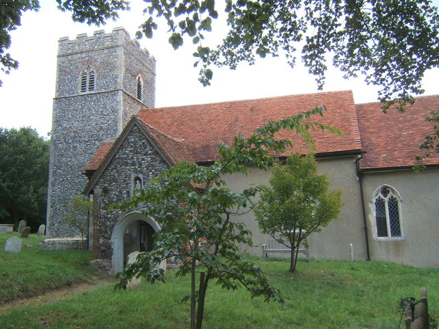 Church of St Mary in Little Blakenham, Suffolk, England. A Grade I listed medieval church.